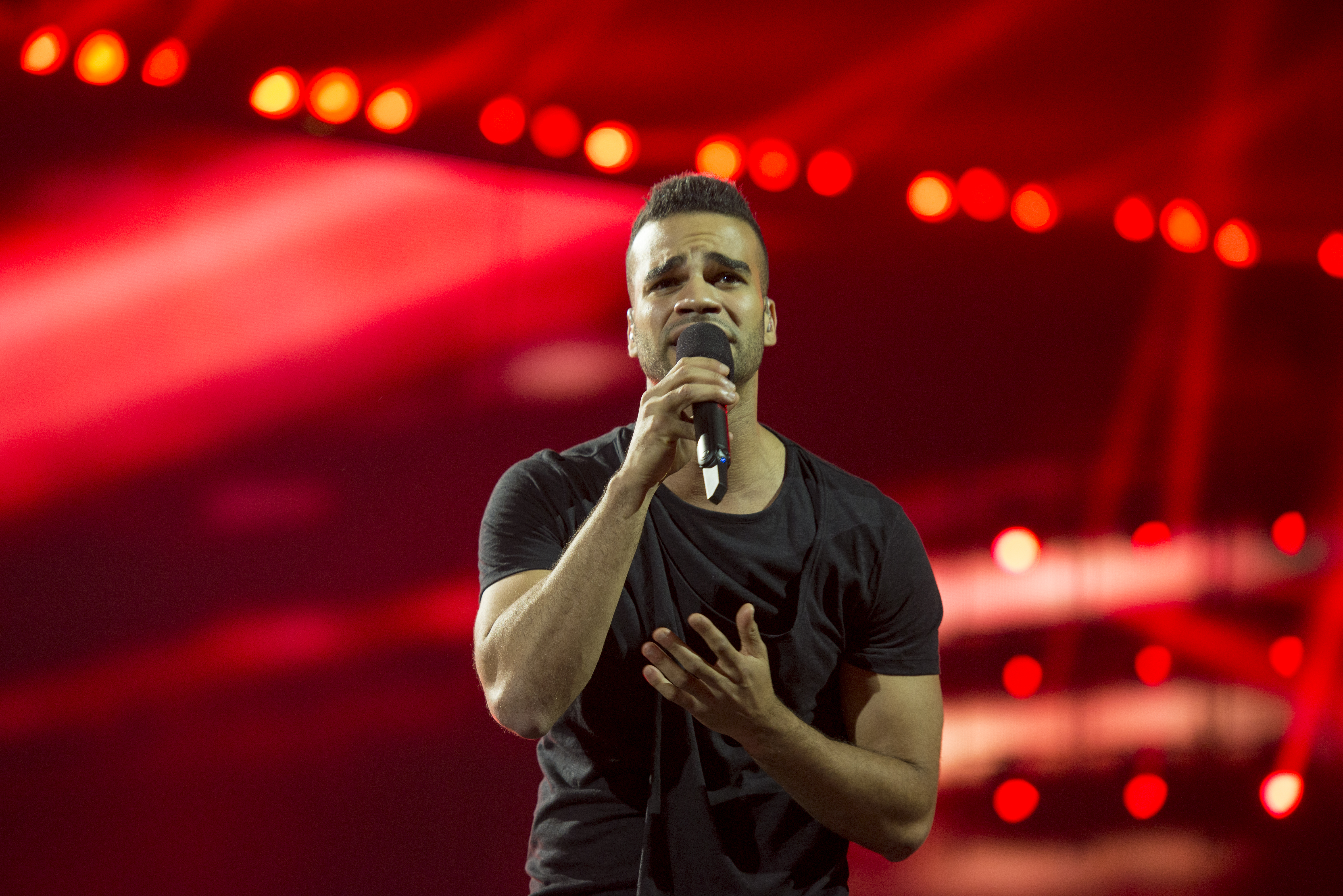 Kállay Saunders representing Hungary with the song "Running" during the first dress rehearsal of the first semi final of the Eurovision Song Contest 2014 Copenhagen. (Help translate this text)